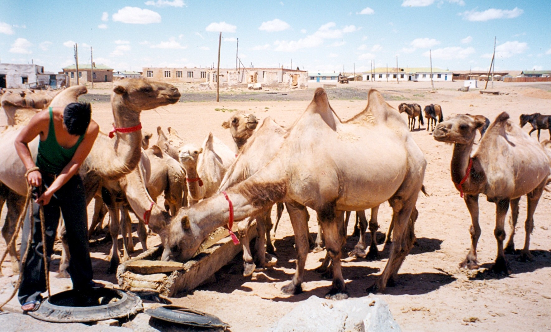 Bactrian camels drinking from a well, Ömnögovi Province, Mongolia.